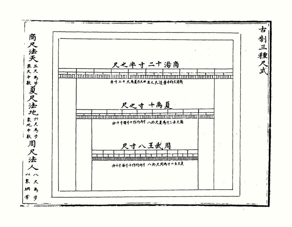 This XVIth century illustration show the evolution of chǐ imperial measurement unit with time. Texte is wrote from right to left. First line: 商湯十二村半之尺 (Under Shang Tang reign, Shang dynasty, twelve and half inches chǐ.) ; Second line: 夏禹十寸之尺 (sous Da Yu reign, Xia dynasty, ten inches long chǐ) ; Third line: 周武王八寸尺. (Zhou Wuwang, Zhou dynasty, height inches long chǐ).